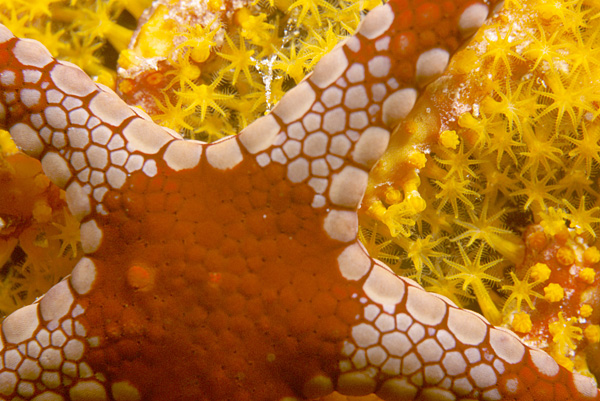 Fromia monilis (elegant sea star) with relief plates; on soft coral, Rock Islands, Palau Islands, Micronesia. Image taken by Clark Anderson/Aquaimages.